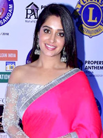 Dipika Kakar at the 25th SOL Lions Gold Awards 2018